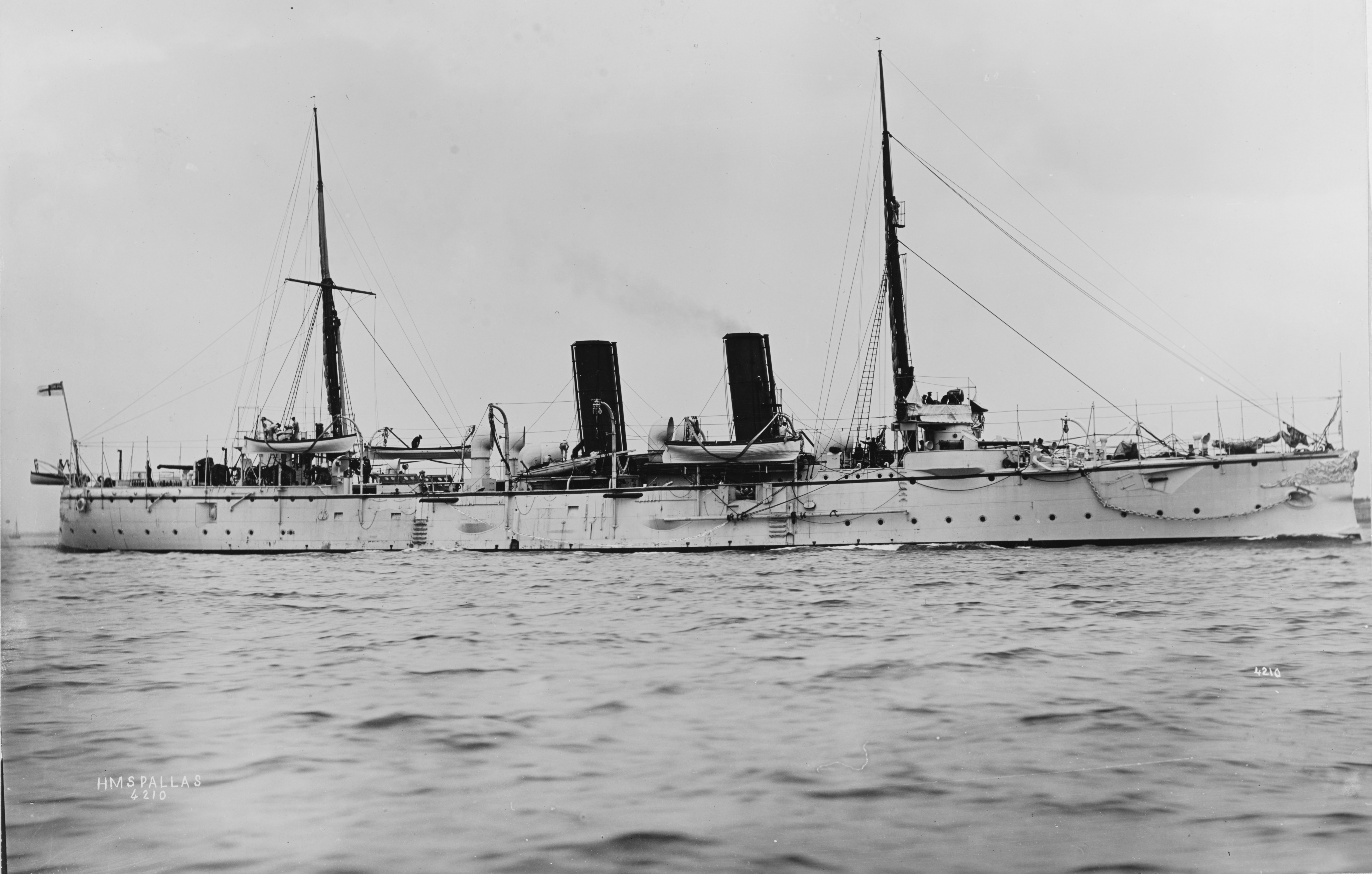 The HMS Pallas (1890) during the 1890s.